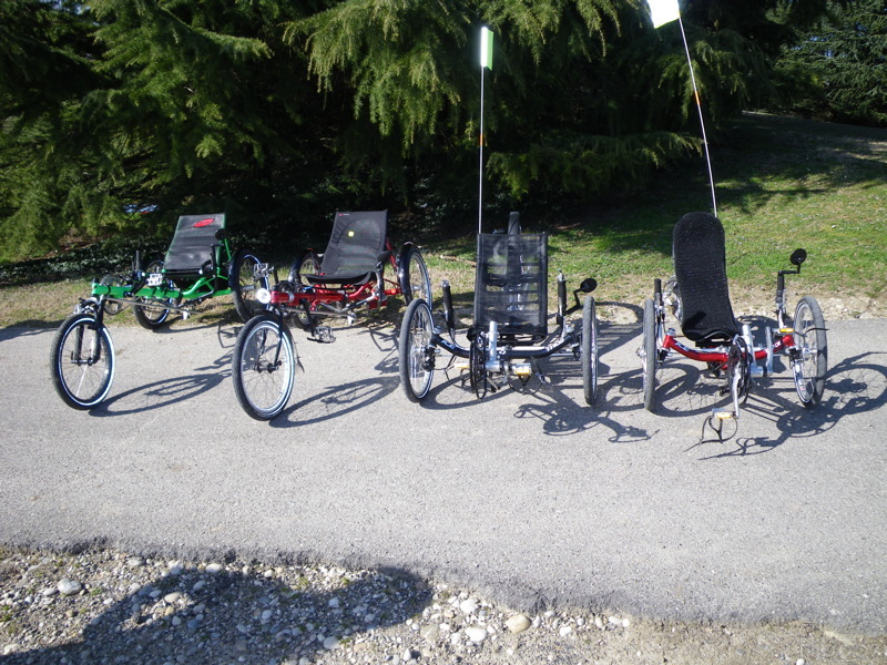 4 recumbent trikes : 2 deltas, and 2 tadpoles (one with 20" rear wheel, the other with a 26" wheel)